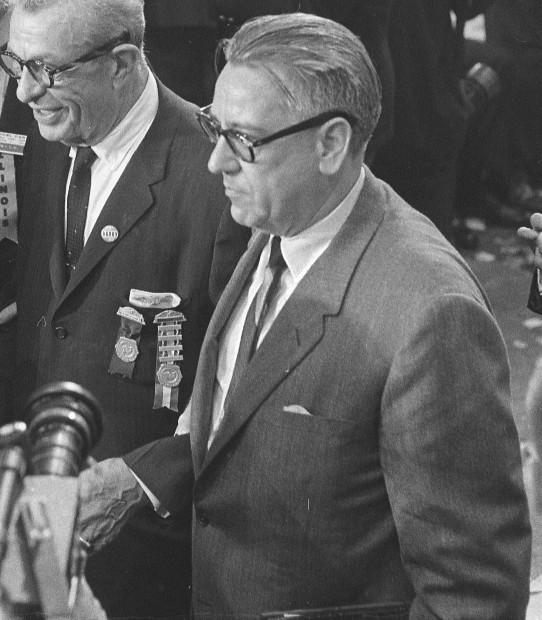 Illinois Senator Everett Dirksen and a man, stand on the floor with delegates around them, at the 1964 Republican National Convention in San Francisco, California